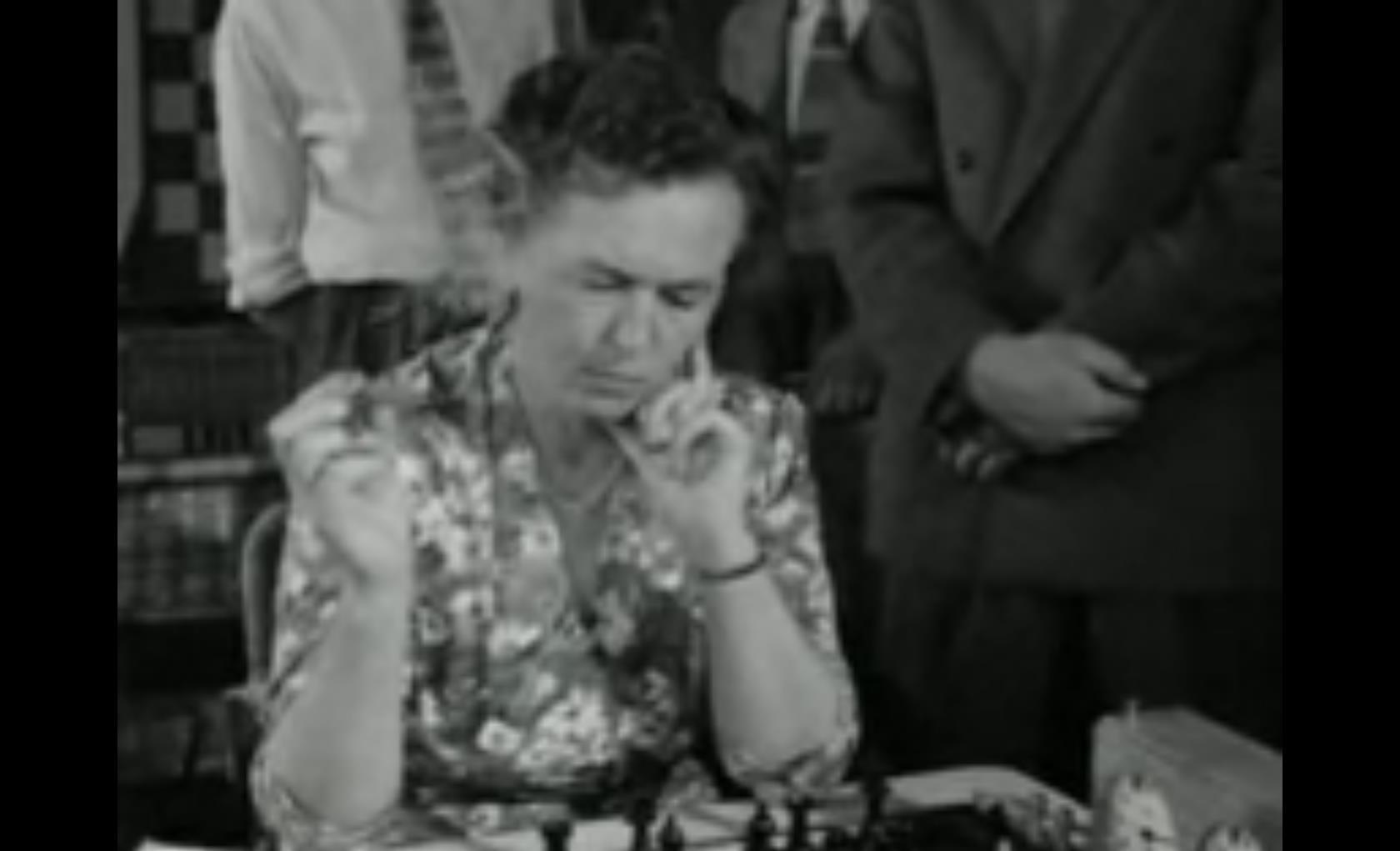 Female Danish chess player Ingrid Larsen during the World Chess Tournament for women's national team, Sept. 1957 in Emmen (NL)